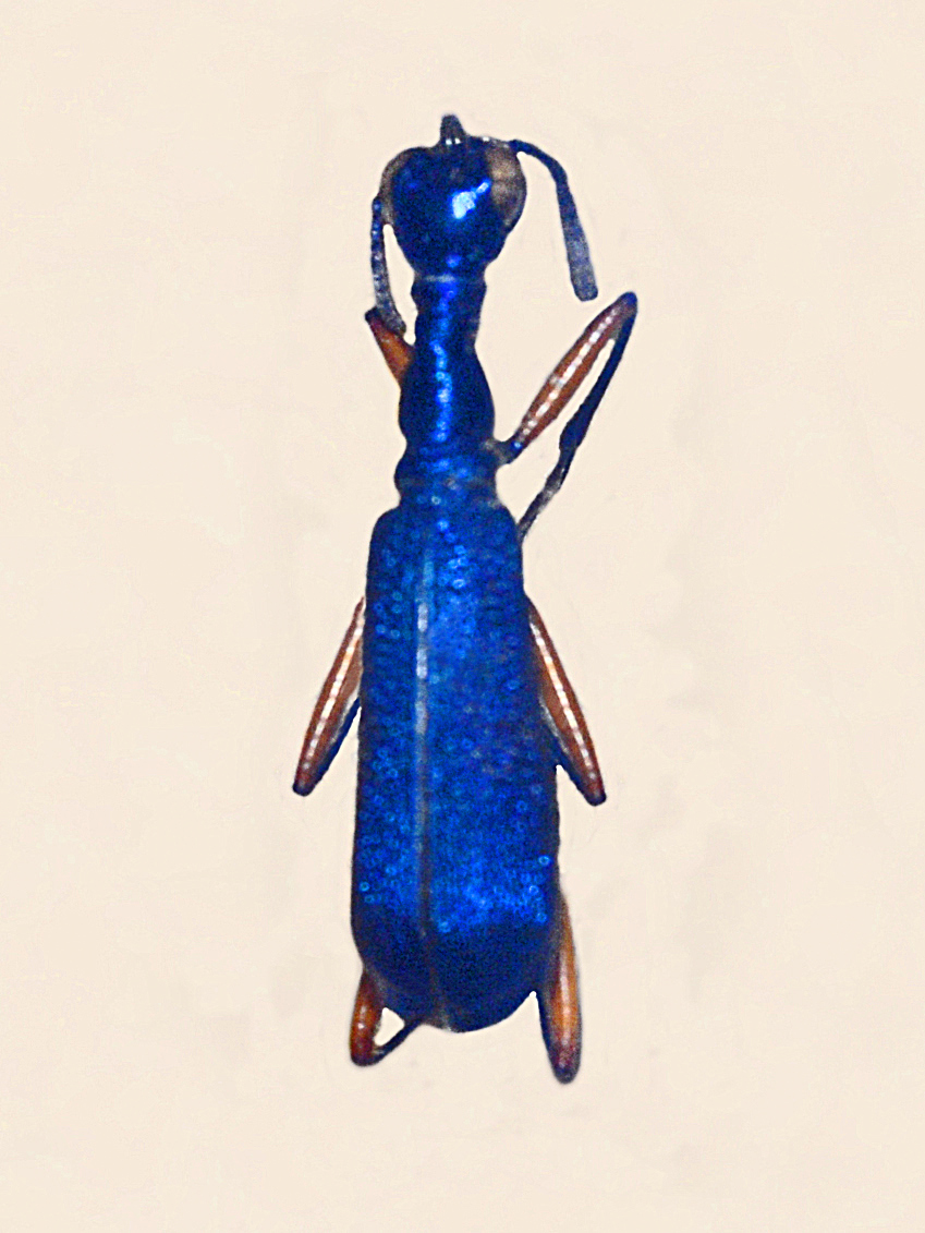 Neocollyris crassicornis from Cochinchina. Museum specimen